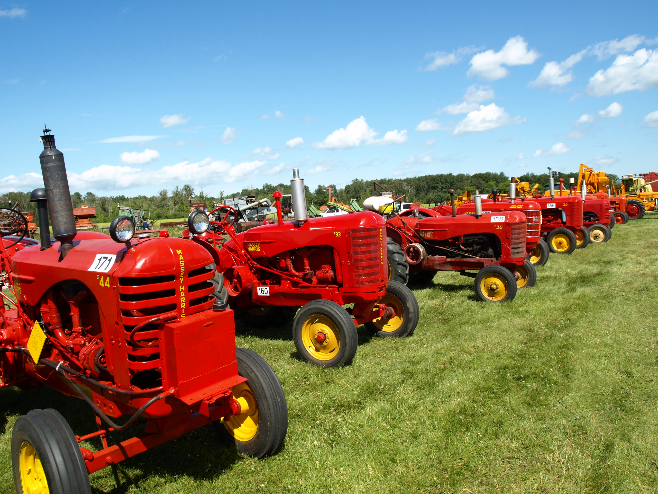 Thresherman's Reunion Agricultur Machinary Show Manitoba Agricultural Museum Austin Manitoba Canada